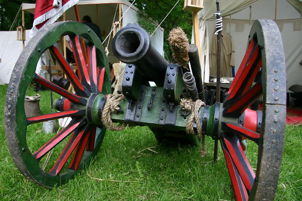 Reconstruction(2006) of Battle of Raszyn(1809)